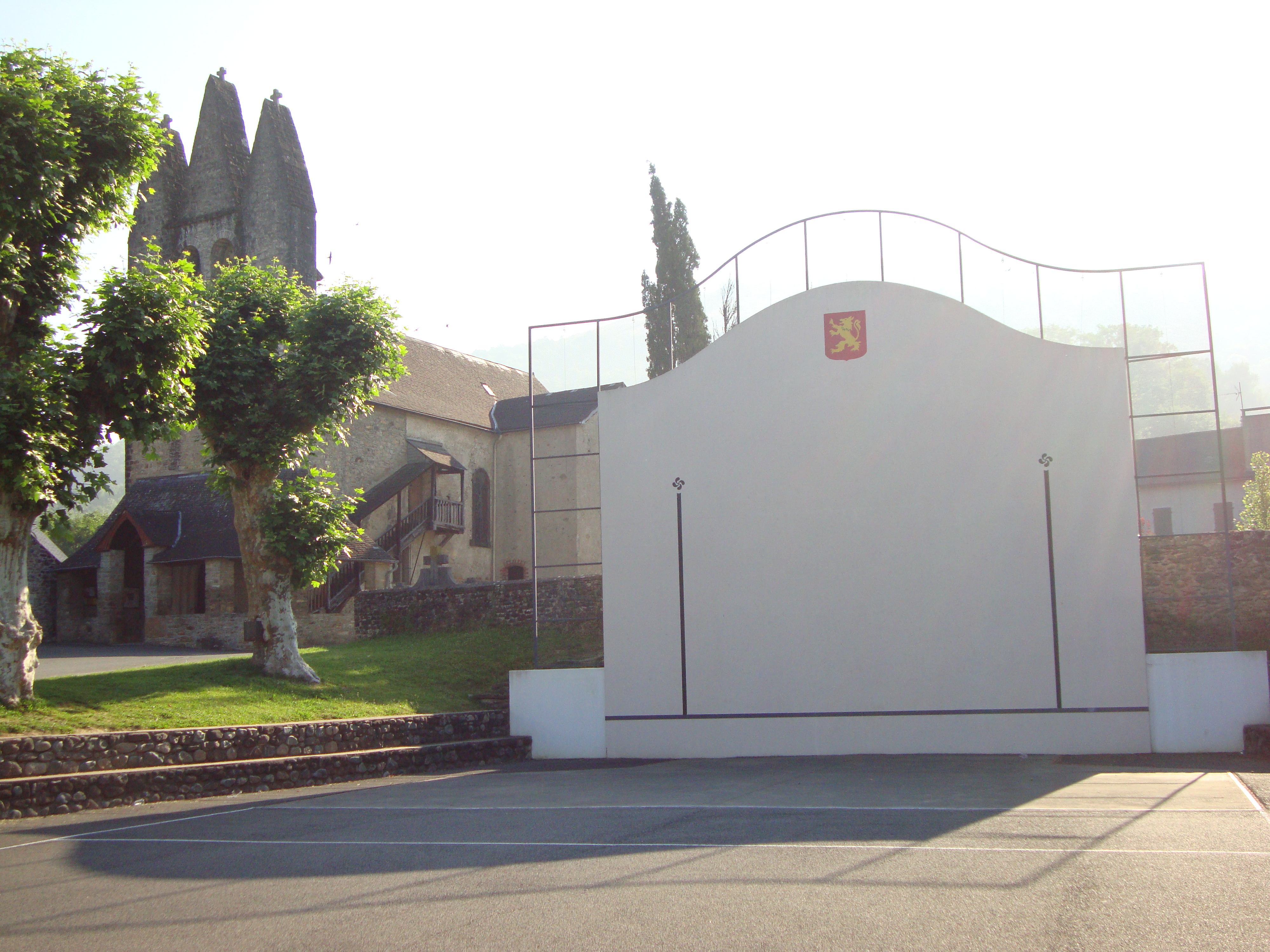 Gotein (Gotein-Libarrenx, Pyr-Atl, Fr) Pelota court nearby the church